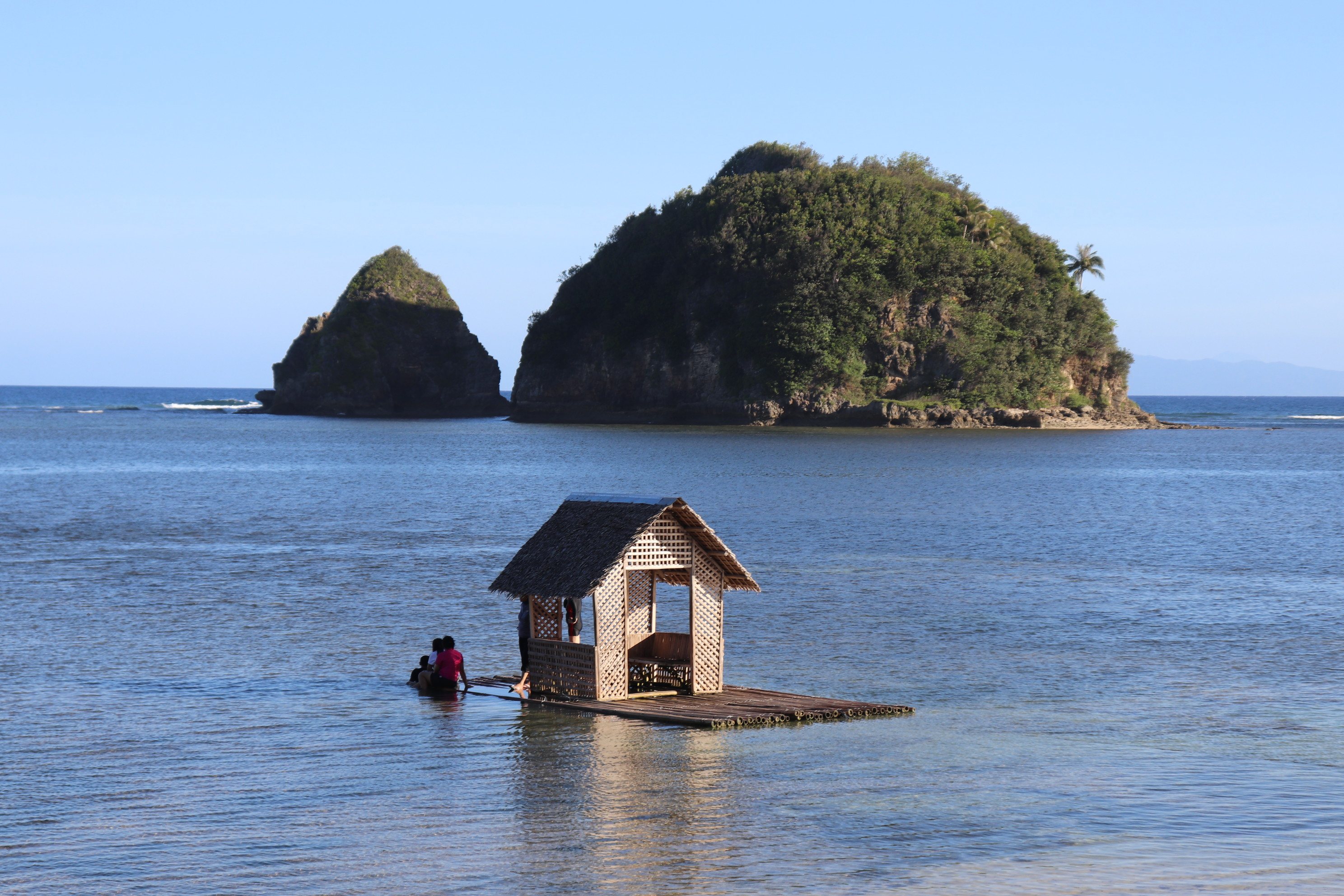 Igang, Virac, Catanduanes